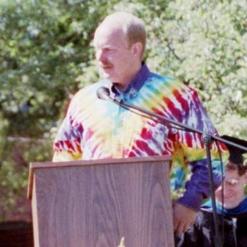 Kent Beck tells it like it is. The godfather of the XP software development method spoke at our [2001 University of Oregon Computer Science] commencement.